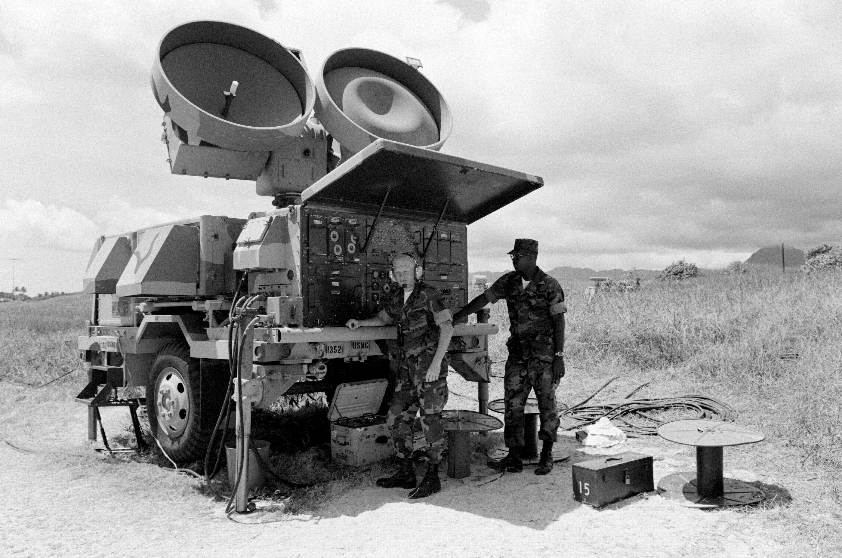 MIM-23 Hawk HPIR : Gunnery Sergeant (GYSGT) H. Gray and GYSGT L. Reid of Marine Air Control Squadron Two operate a Hawk surface-to-air missile high power illuminator/tracker radar during Operation KERNAL BLITZ.